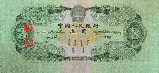 Back of second series 3 yuan renminbi